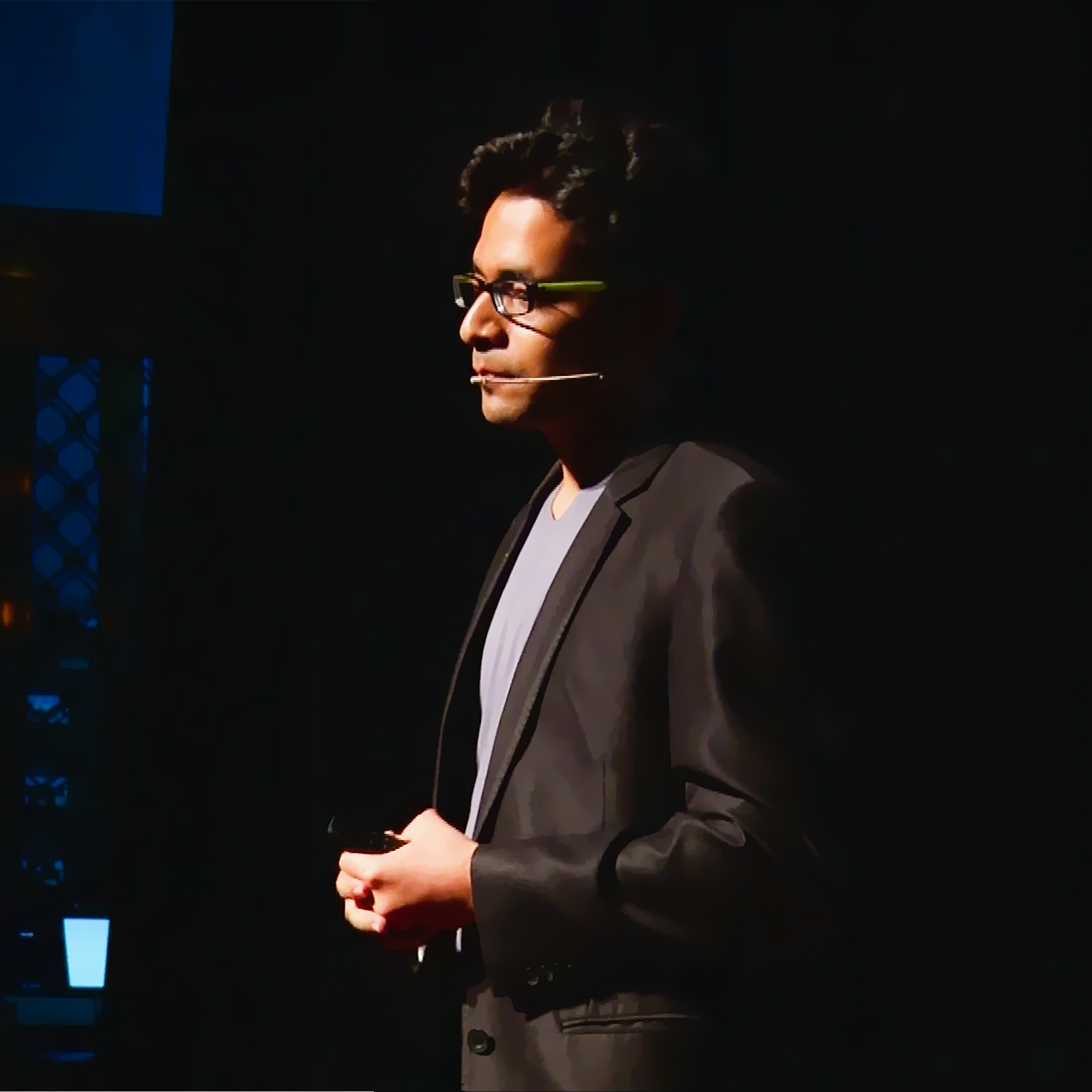 Akshay Agrawal at TEDx conference in Mumbai